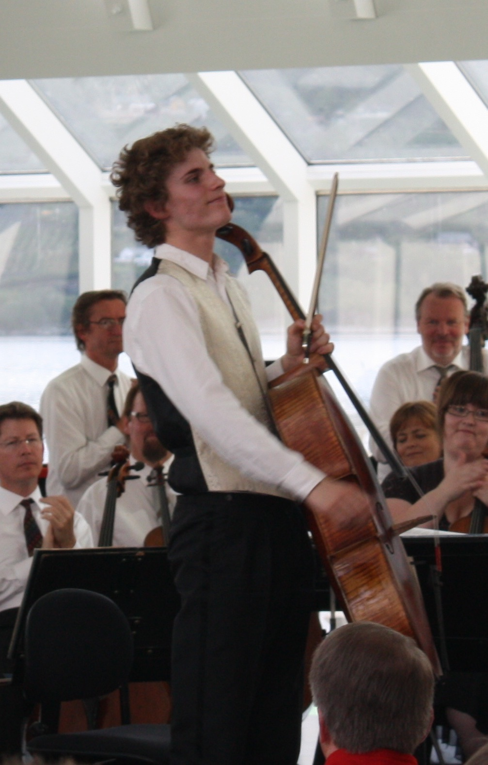 Andreas Brantelid and NRK Kringkastingsorkestret (KORK) at Hardanger Musikkfest. (Cropped version of this picture).